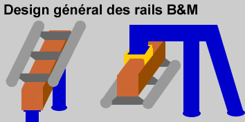 Diagram of B&M rollercoaster track. Drawing created by myself, Sam-Pig.